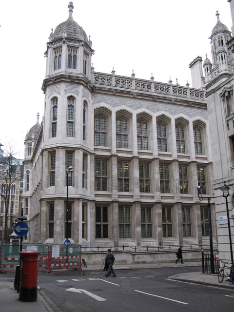 The Public Record Office, Chancery Lane, WC2. Shows the location of 1133124.